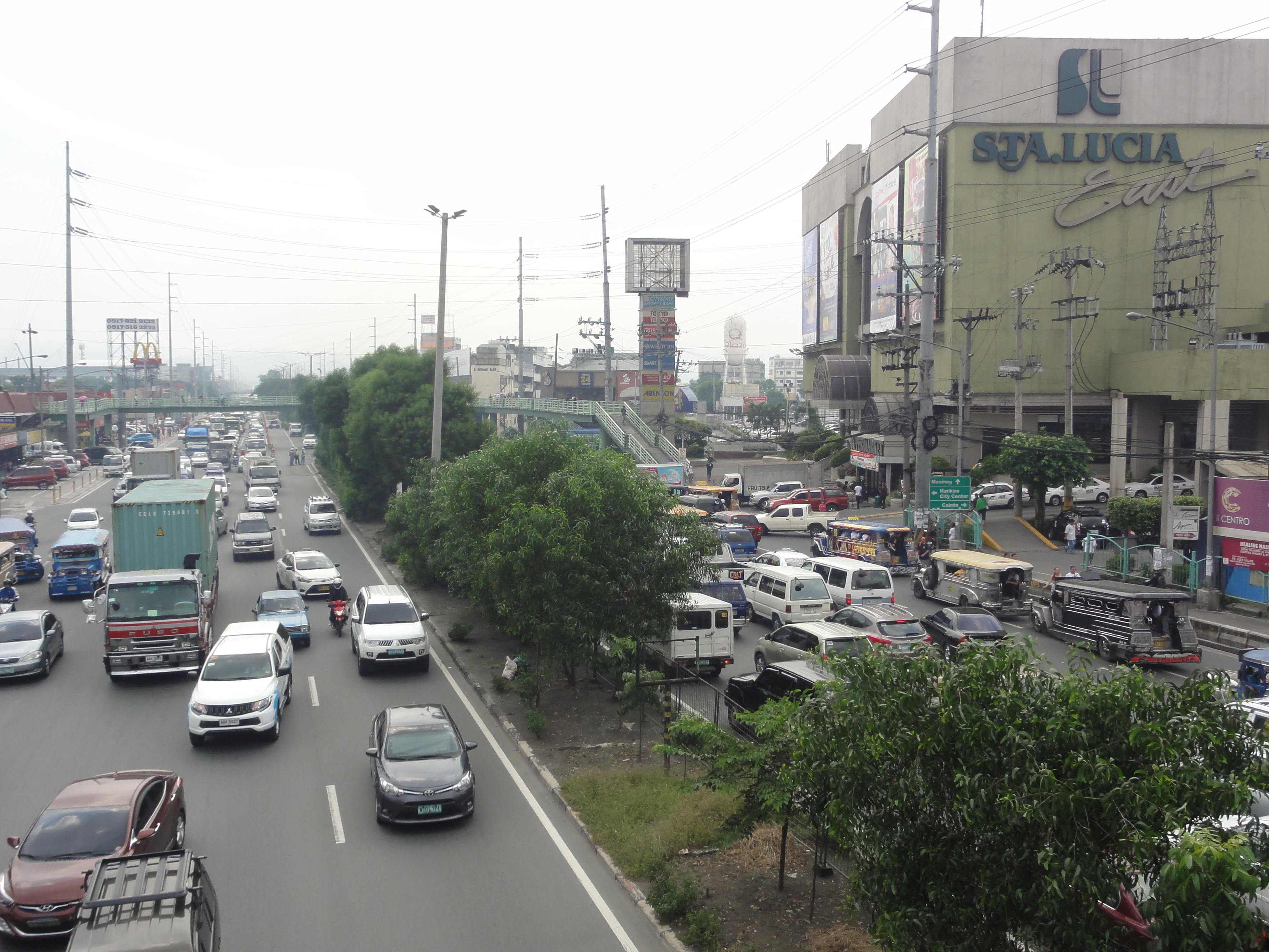 Marcos Highway in Marikina City